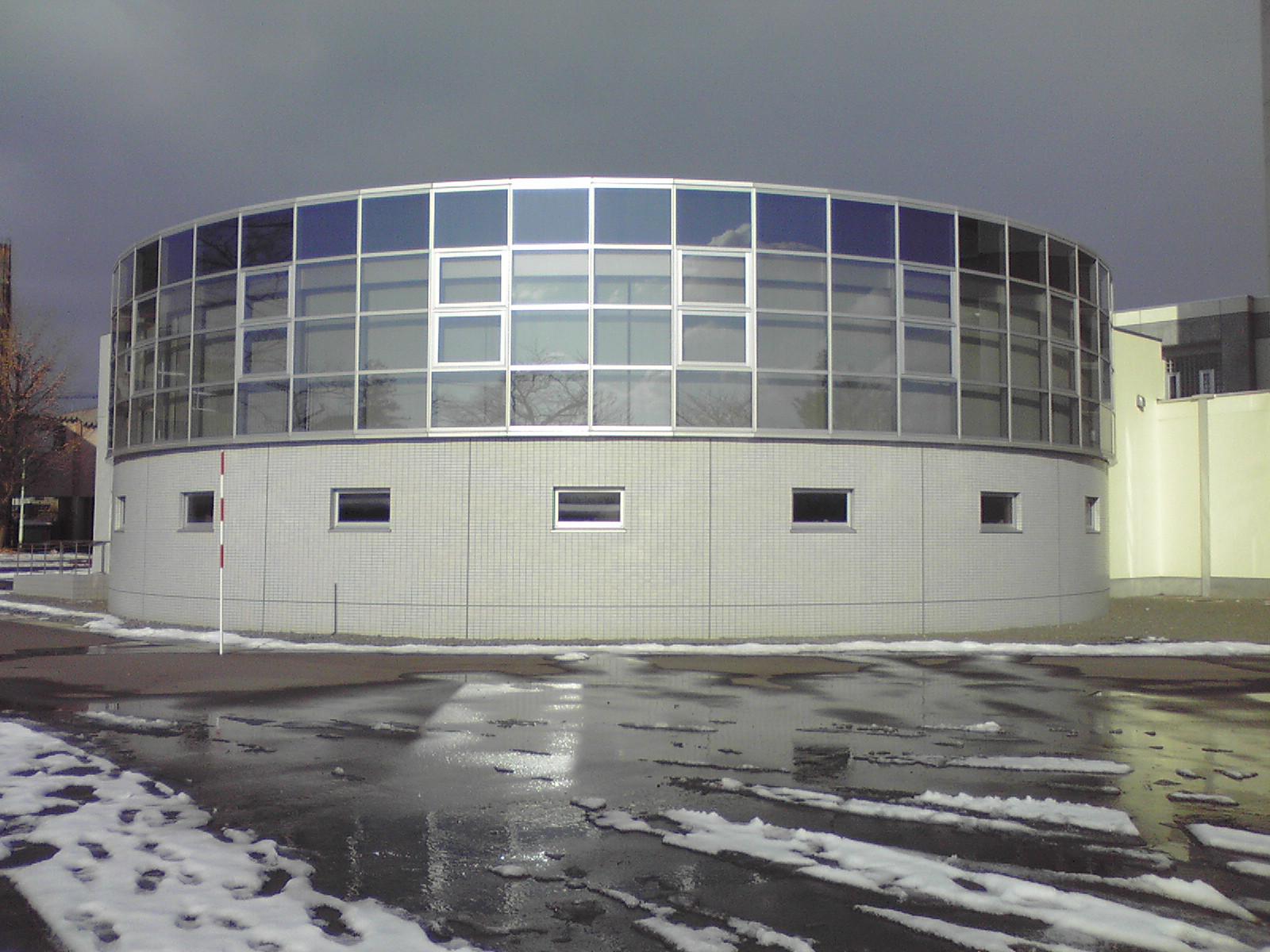 Aomori Prefectural Aomori High School Library (Learning Center), in omori, Aomori prefecture, Japan.